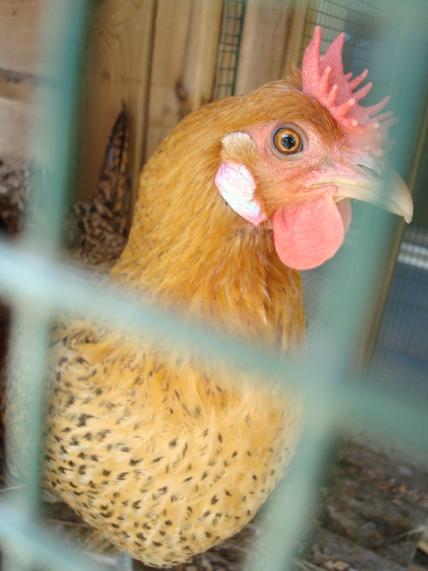 A Sicilian Buttercup hen in Portland, Oregon